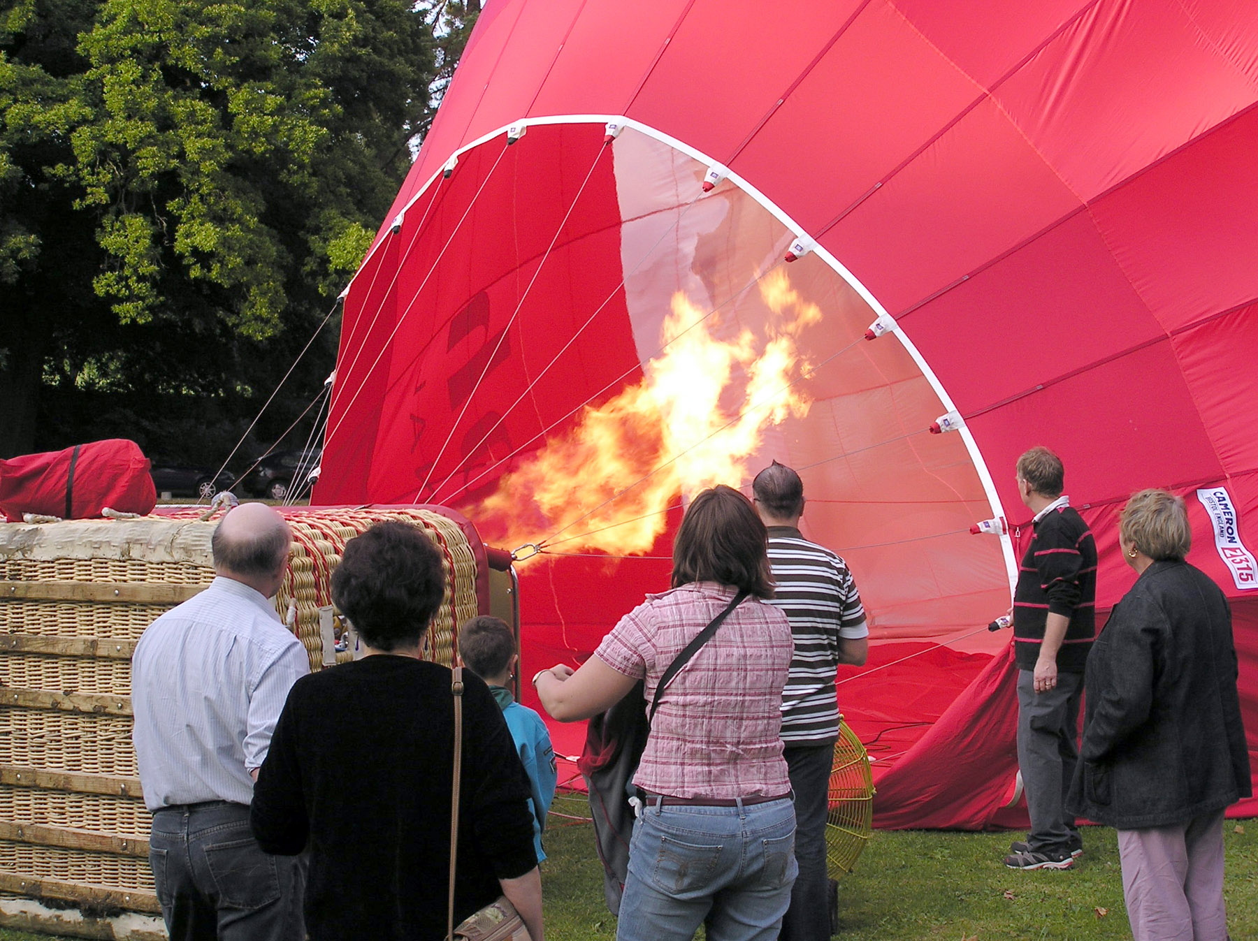 Firing the propane burners during final inflation of a hot air balloon, Royal Victoria Park, Bath, England. This balloon carries 16 passengers and the pilot. Photographed by Adrian Pingstone on 21st September 2005 and placed in the public domain.